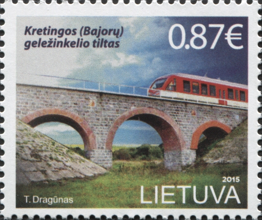 Stamps of Lithuania, 2015